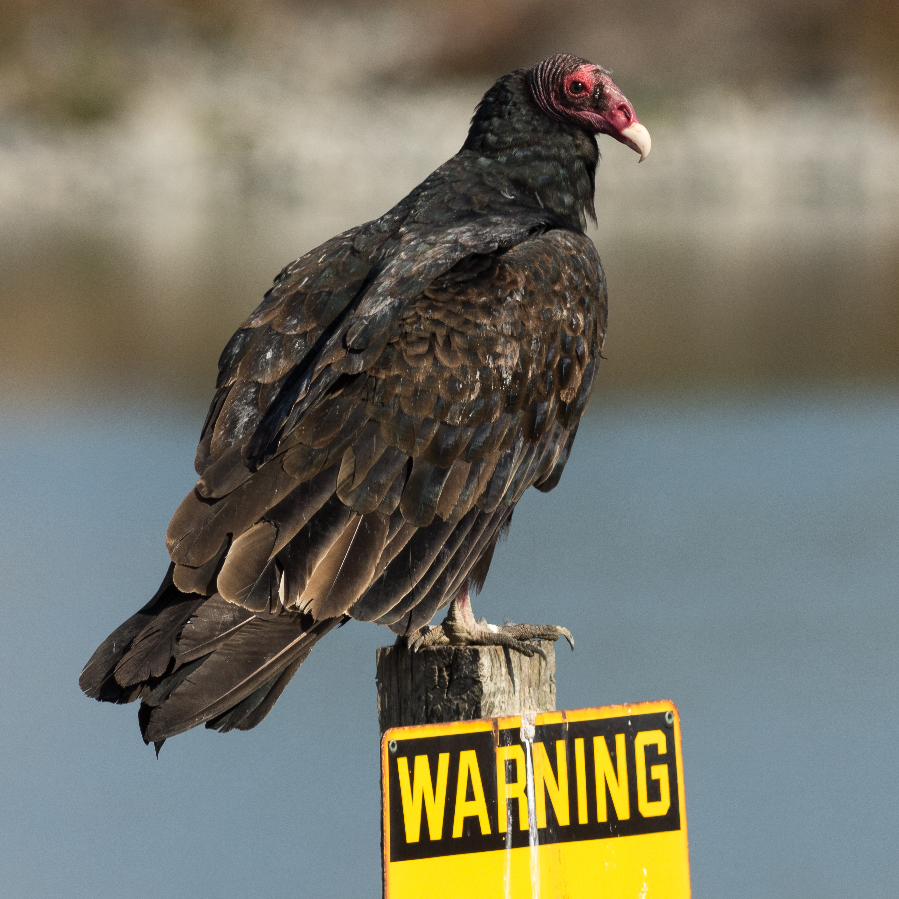 Turkey vulture (Cathartes aura septentrionalis) at Las Gallinas Wildlife Pond, Marin County, California